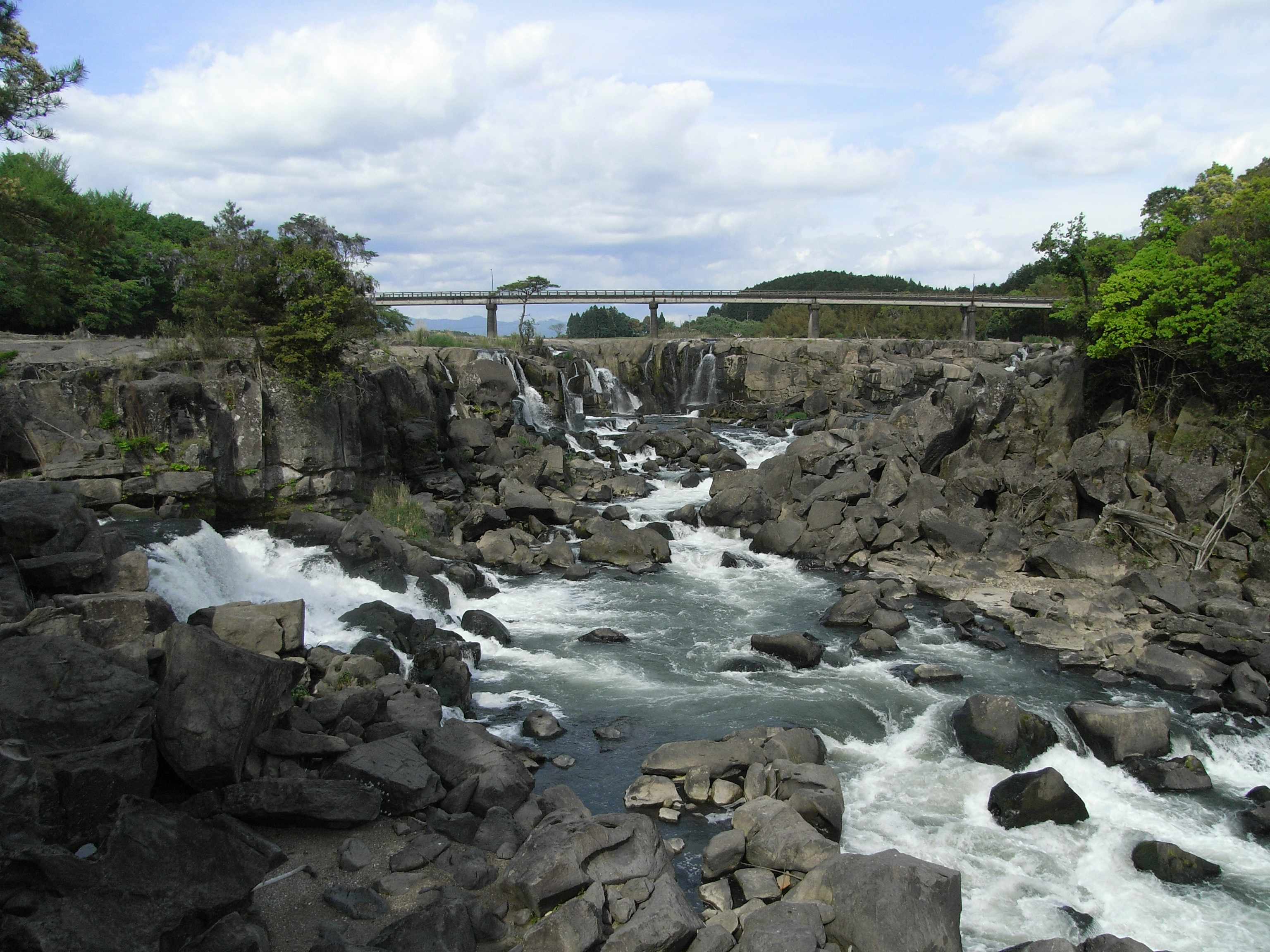 Sogi Falls(Kagoshima pref./Japan)